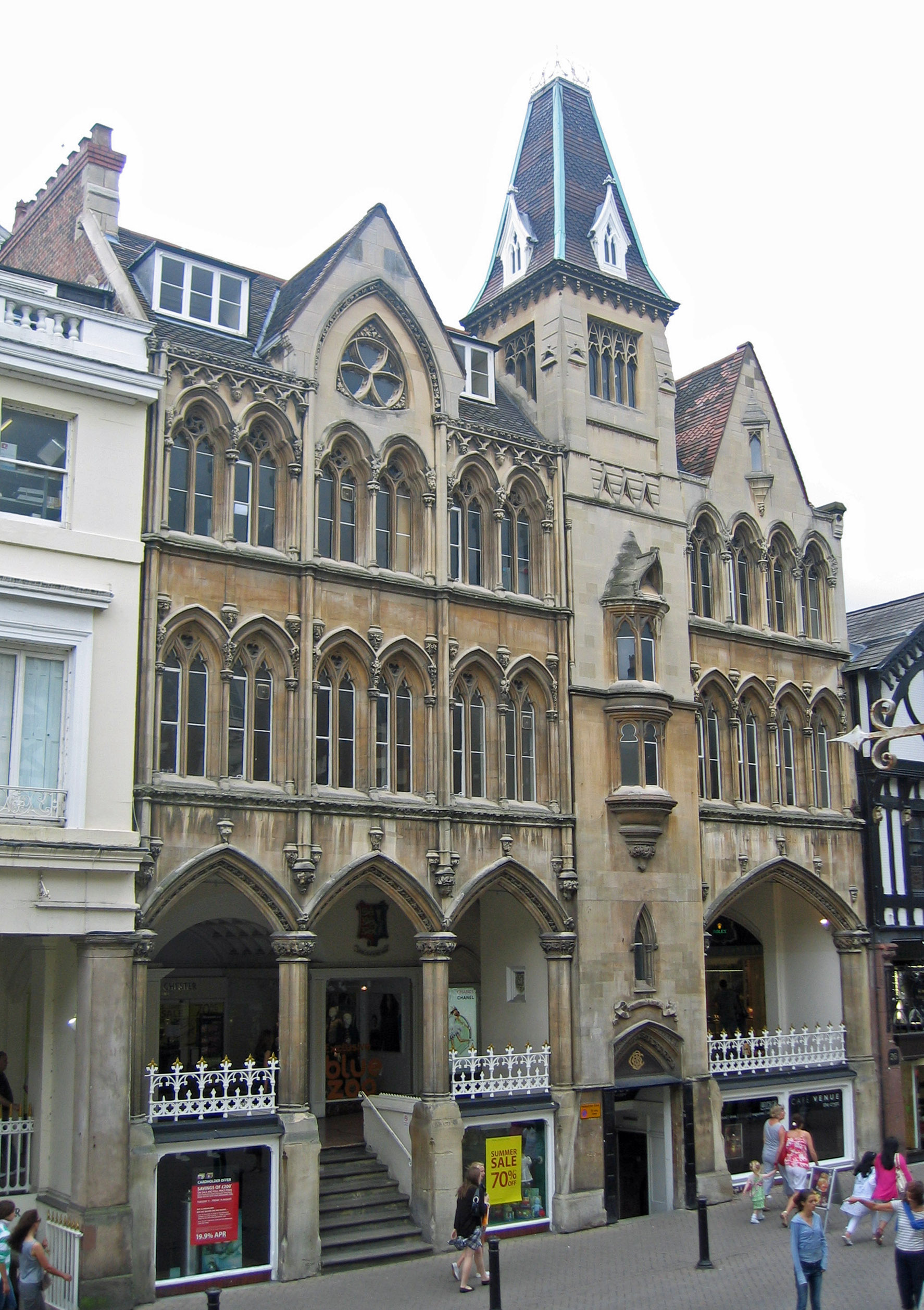 Photograph of Crypt Chambers, Eastgate Street, Chester, Cheshire, England